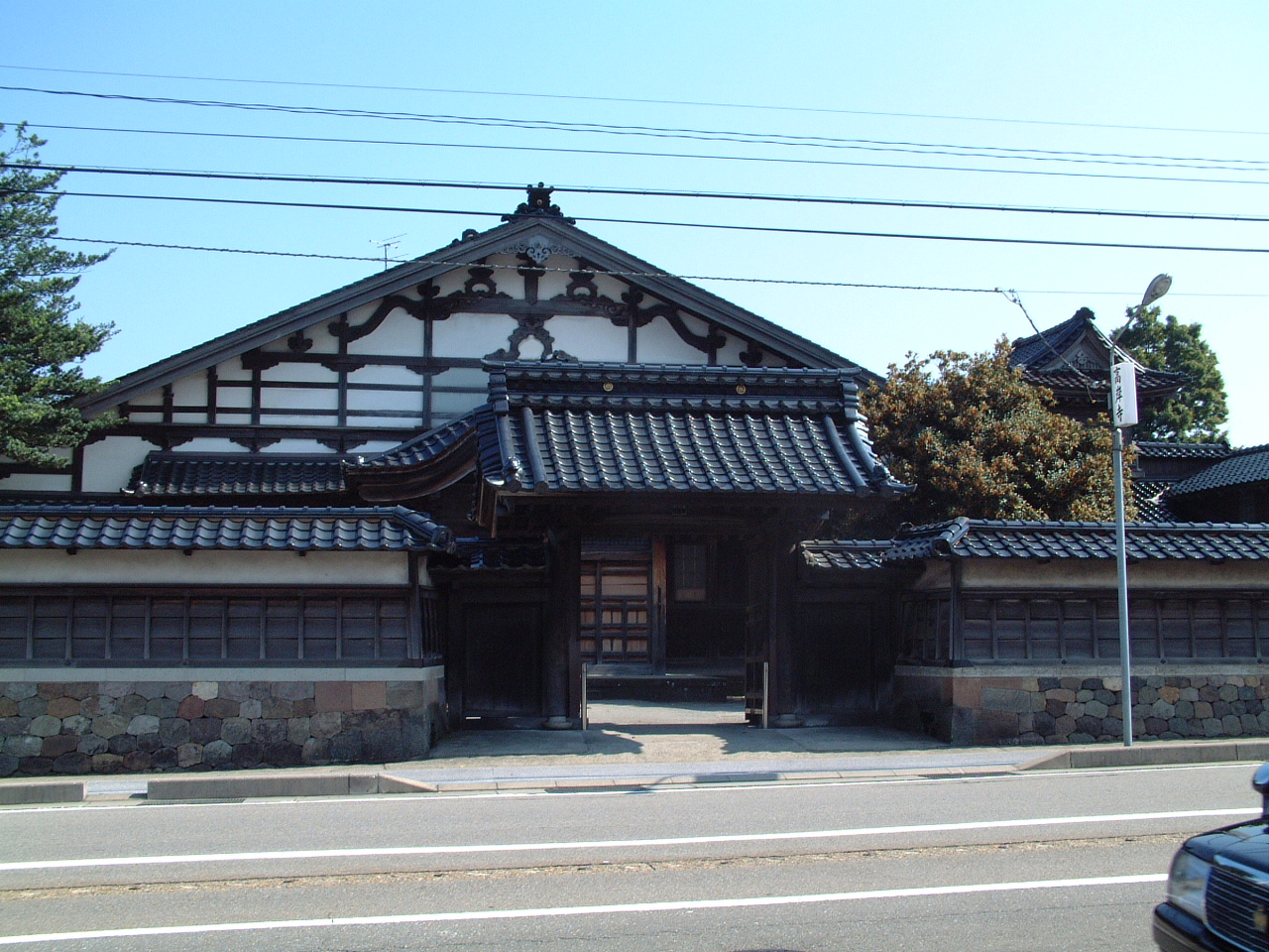 Temple in Teramachi, Kanazawa, Japan. Taken by Kagaland, 2001.